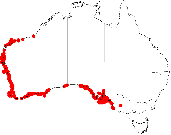 Scaevola crassifolia occurrence data from Australasian Virtual Herbarium downloaded 12 May 2019 (no doi)